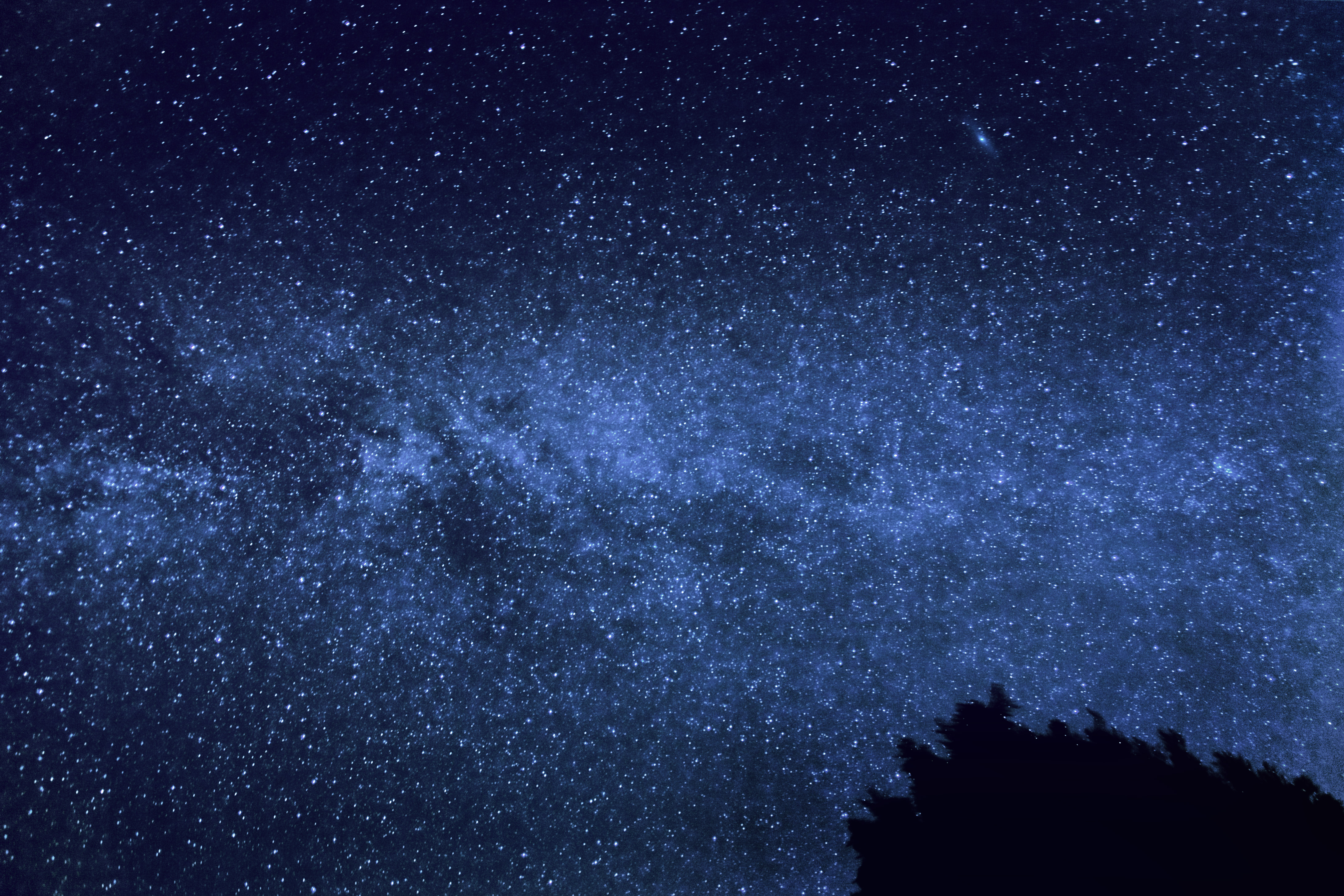 The Milky Way with the Andromeda Galaxy visible to the upper right hand side.